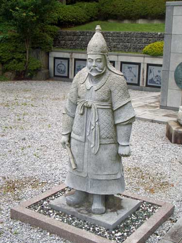 Jakko is the founder of the Koma clan from Goguryeo.